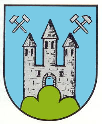 Coat of arms of Nothweiler